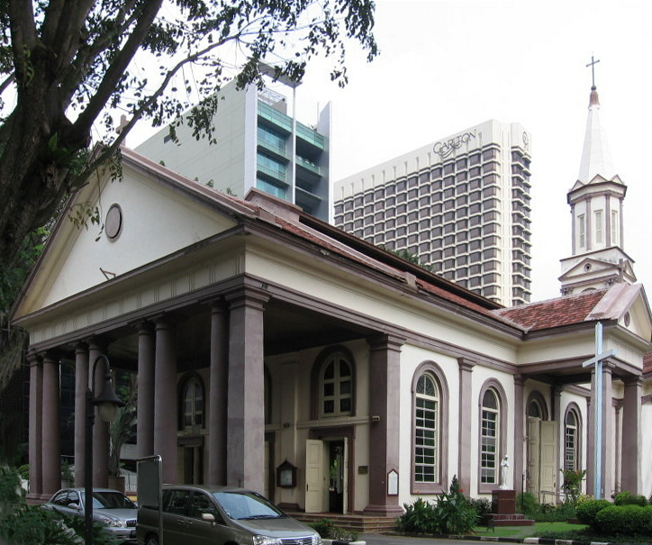 The Cathedral of the Good Shepherd in Singapore.